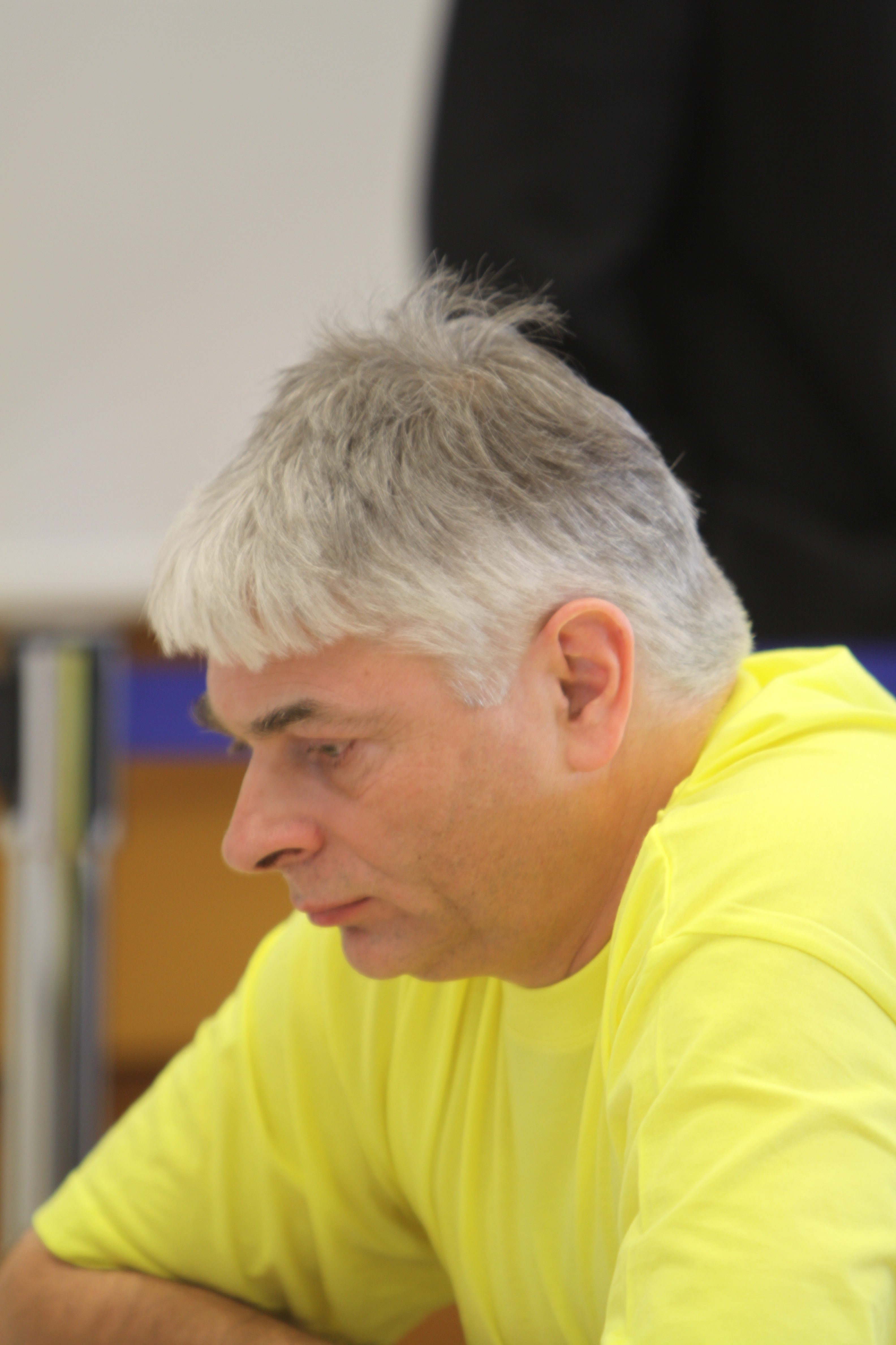 Beat Zueger, organisator and player at Free Helvetic Chess Club 2. FHCC-Schachturnier